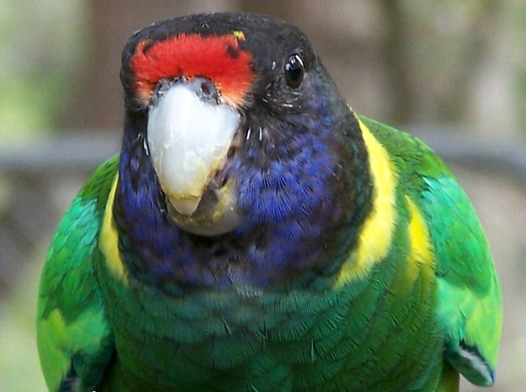 Australian Ringneck (Barnardius zonarius), the subspecies shown is probably the Twenty-eight Parrot (B. z. semitorquatus) - named after its distinctive call; however, its abdomen is not shown in the photograph, so there is possibility that it might be a hybrid between Australian Ringneck subspecies.